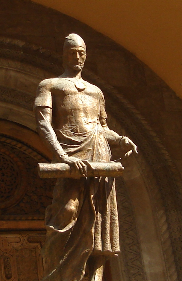 The statue of Shota Rustaveli at the entrance to the National Parliamentary Library of Georgia